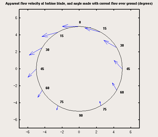 Diagram illustrating how Darrieus wind turbine or Gorlov helical turbine works - drawn by the author to go with article